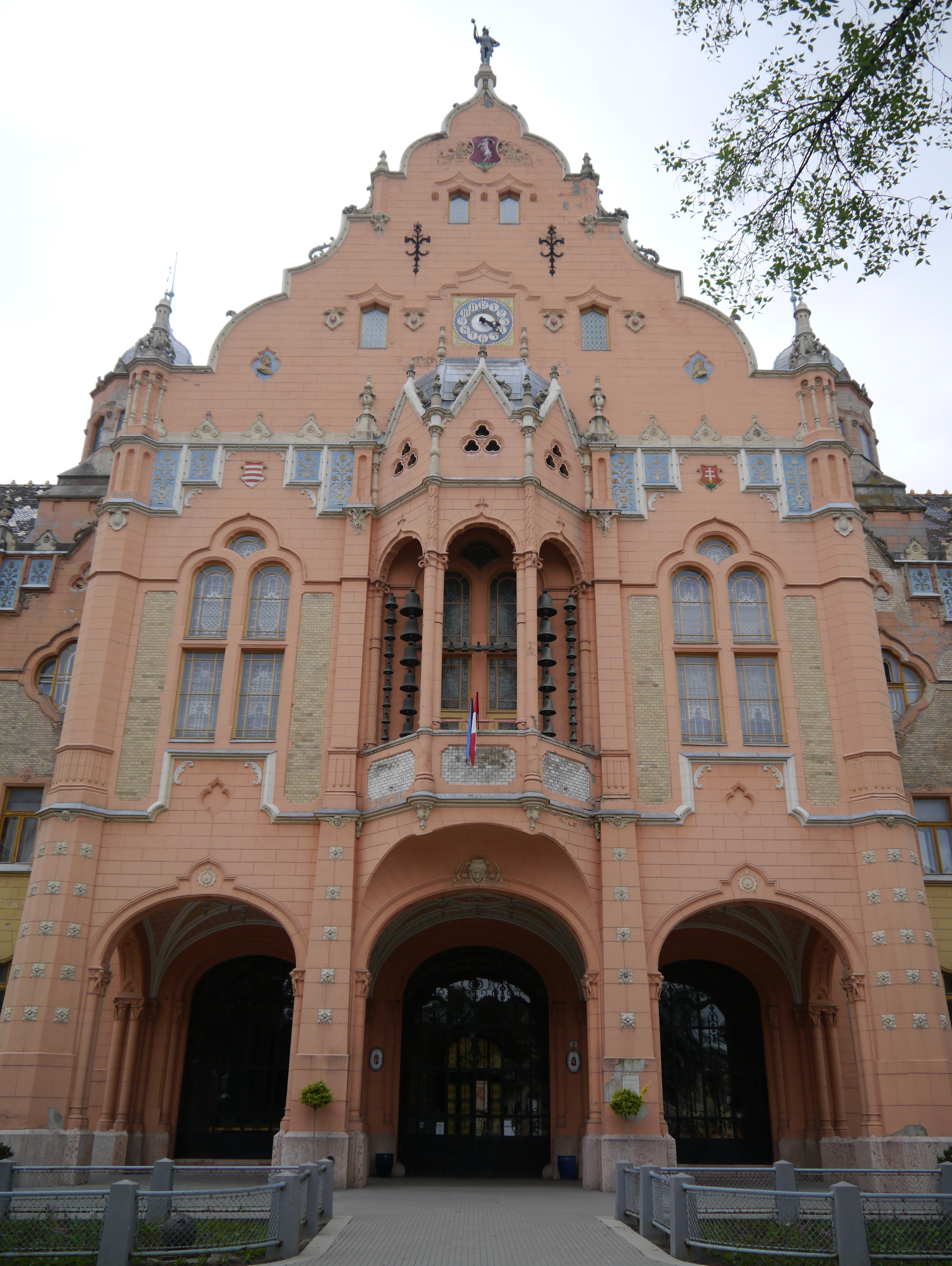 City Hall, Kecskemét, Central Hungary